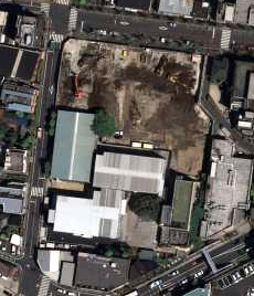 The Geographical Survey Institute took the aerial photograph in Setagaya Ward, Tōkyō Metropolis on April 27, 2009.